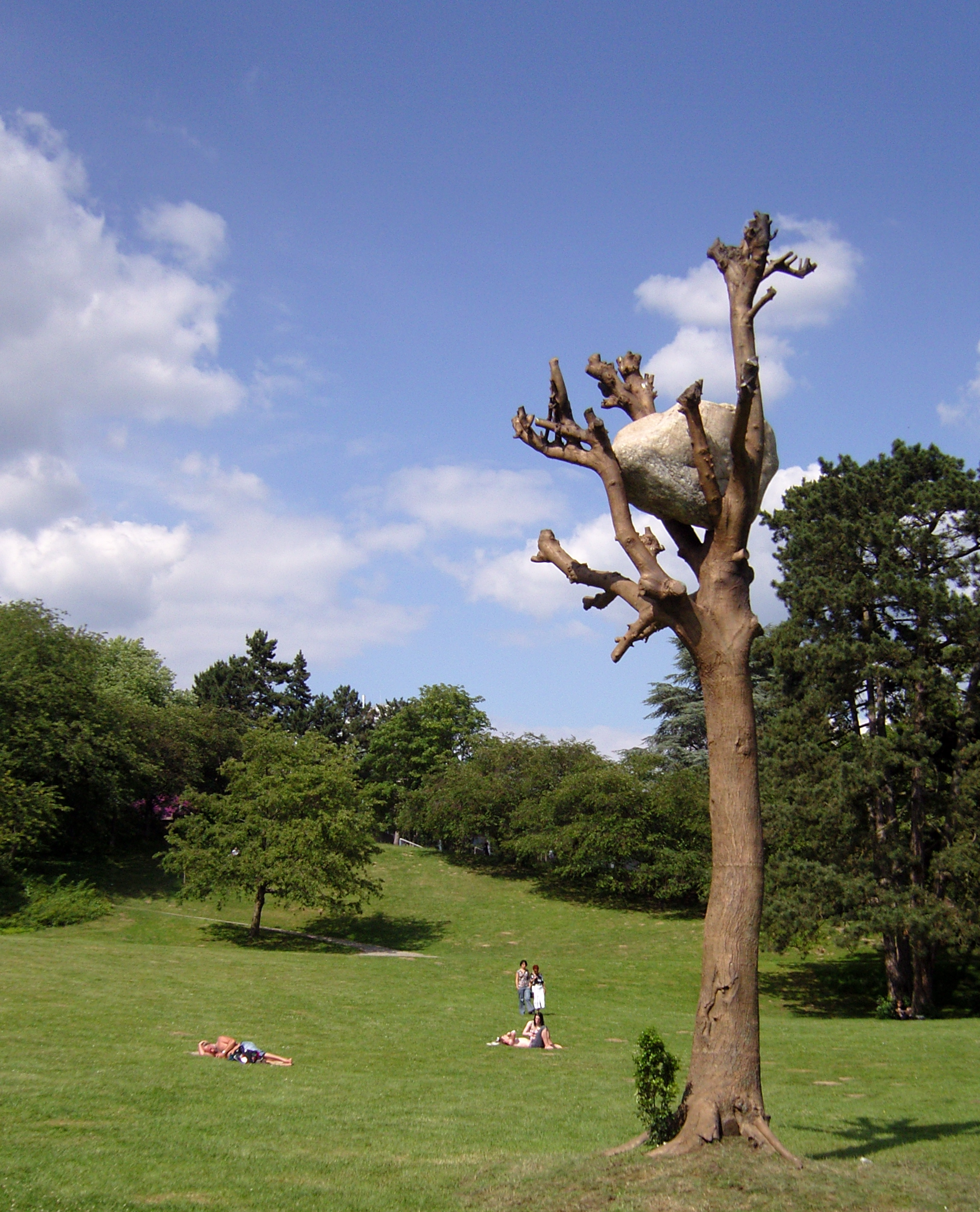 Giuseppe Penone's artwork „Idee di Pietra“ for the documenta 13 in 2012 - Karlsaue in Kassel, Germany.